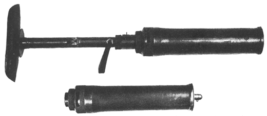 Japanese Type 10 Grenade discharger and bomb. From the Second World War.